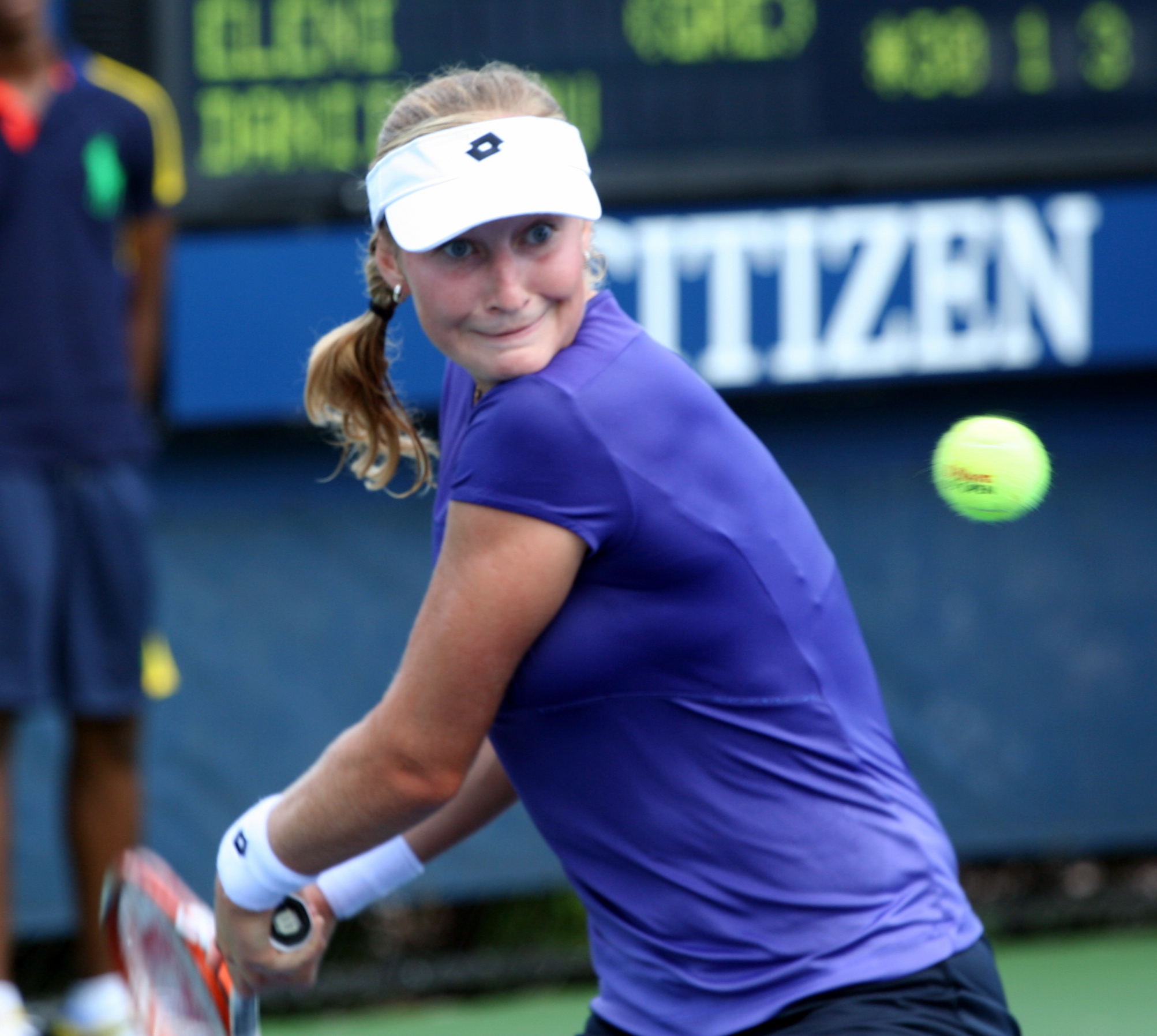 Ekaterina Makarova (RUS) - U.S. Open Tuesday, Aug. 28, 2012